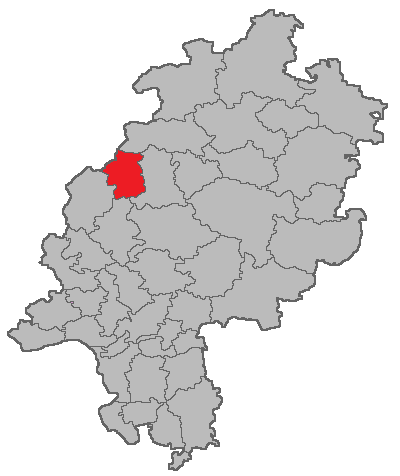 Map of the district court Biedenkopf in Hesse